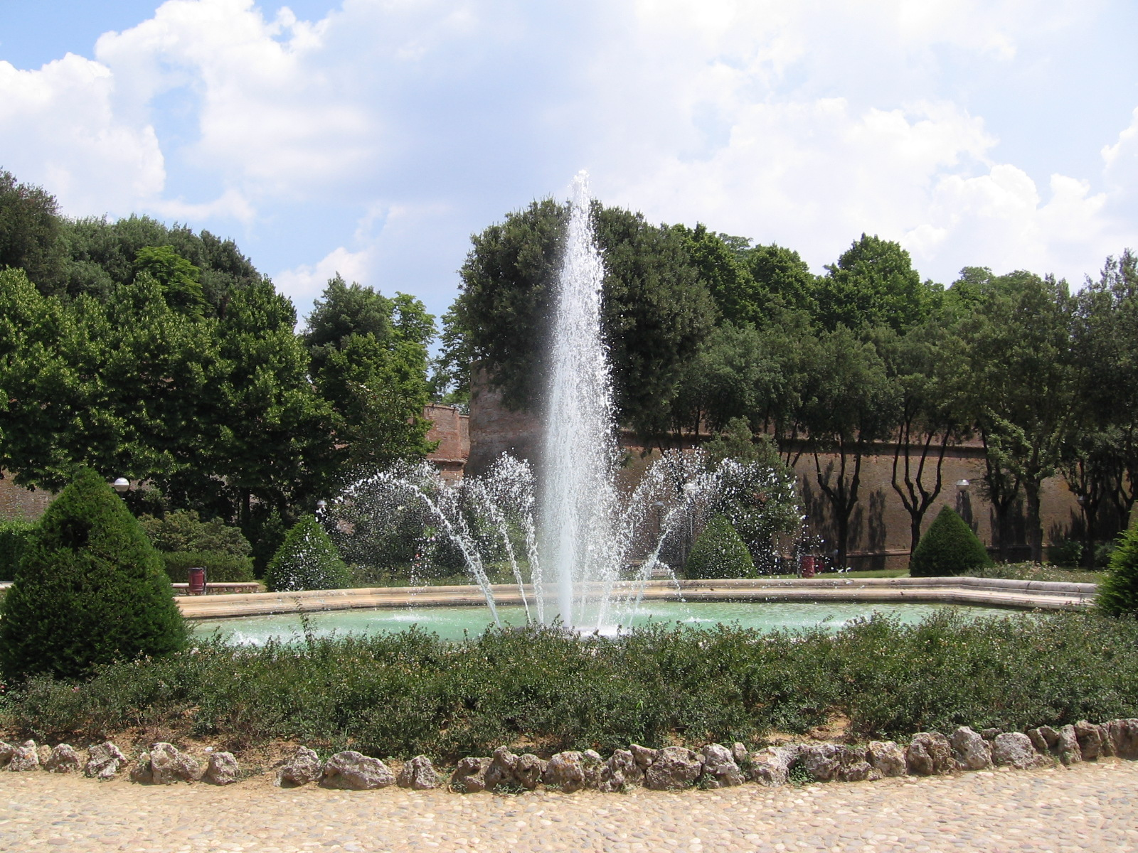 Fountain in Siena (Italy).